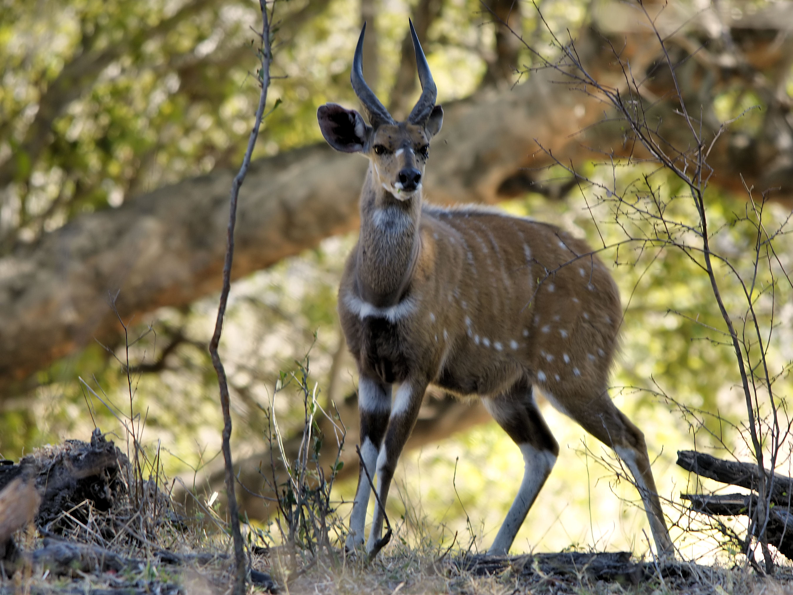 Male Bushbuck at Mosi-oa-Tunya national park, Livingstone, Zambia.